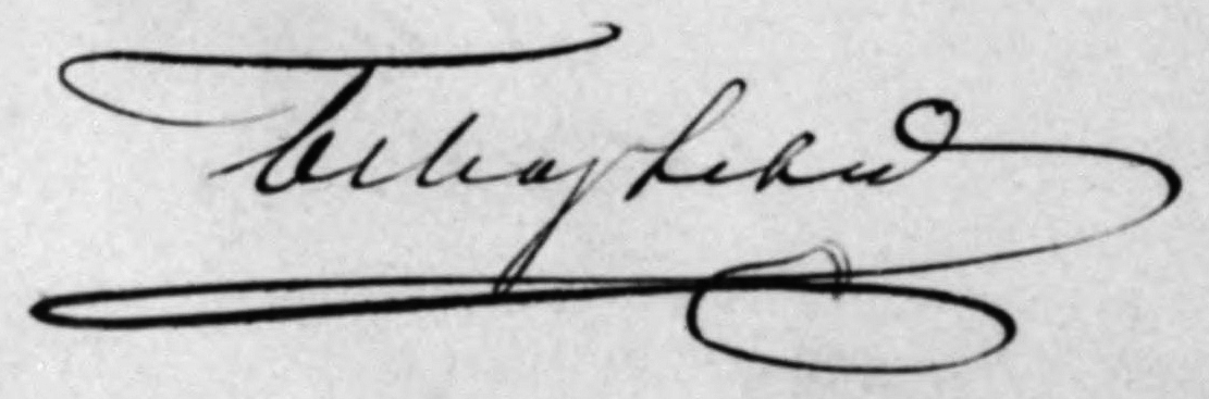 Signature of Russian writer Boleslav Mikhailovich Markevich.